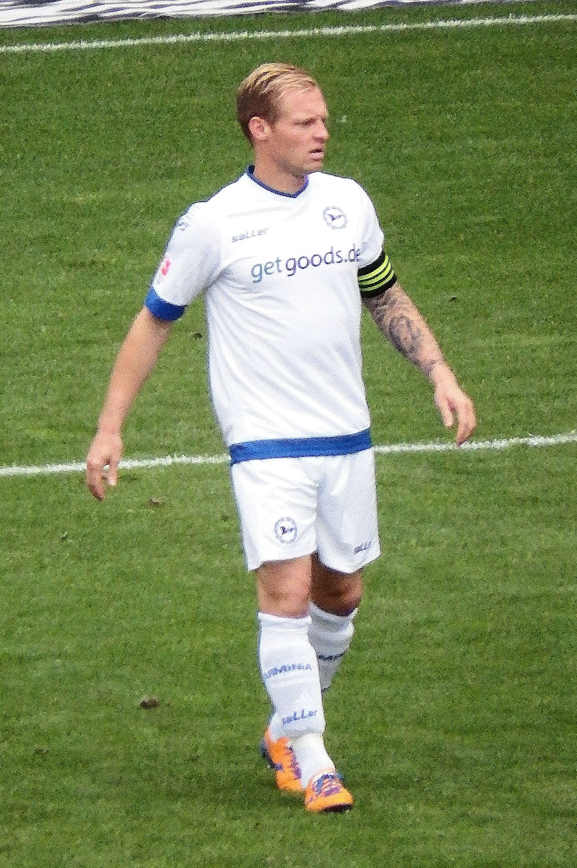 Thomas Hübener as Player of Arminia Bielefeld